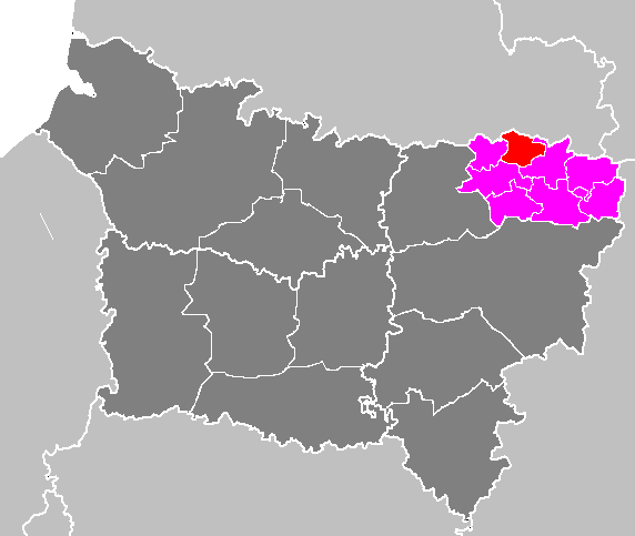 Maps of arrondissements and cantons of France: Arrondissement de Vervins - Canton du Nouvion-en-Thiérache.PNG